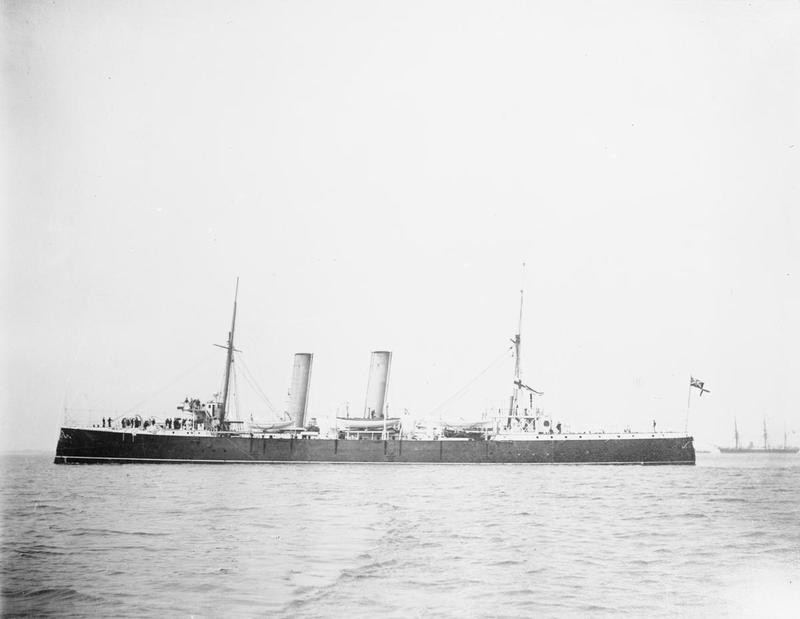 Photograph of British cruiser HMS Melampus.